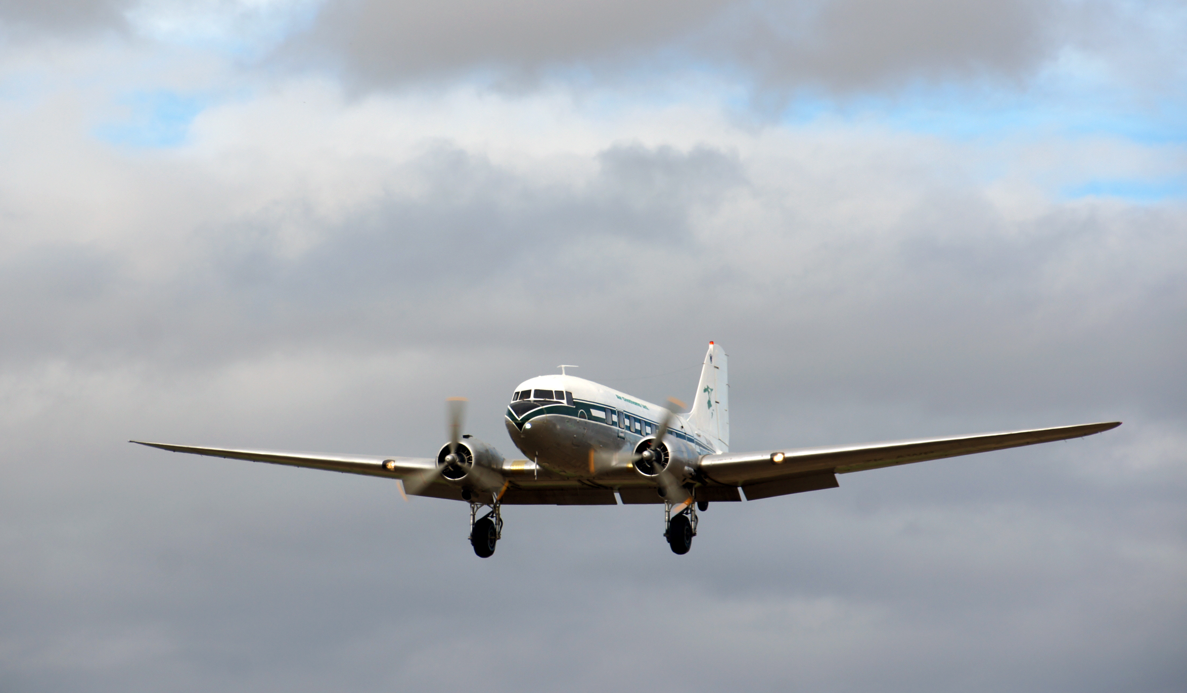 The Douglas DC-3 is a fixed-wing propeller-driven airliner. Its speed and range revolutionized air transport in the 1930s and 1940s.